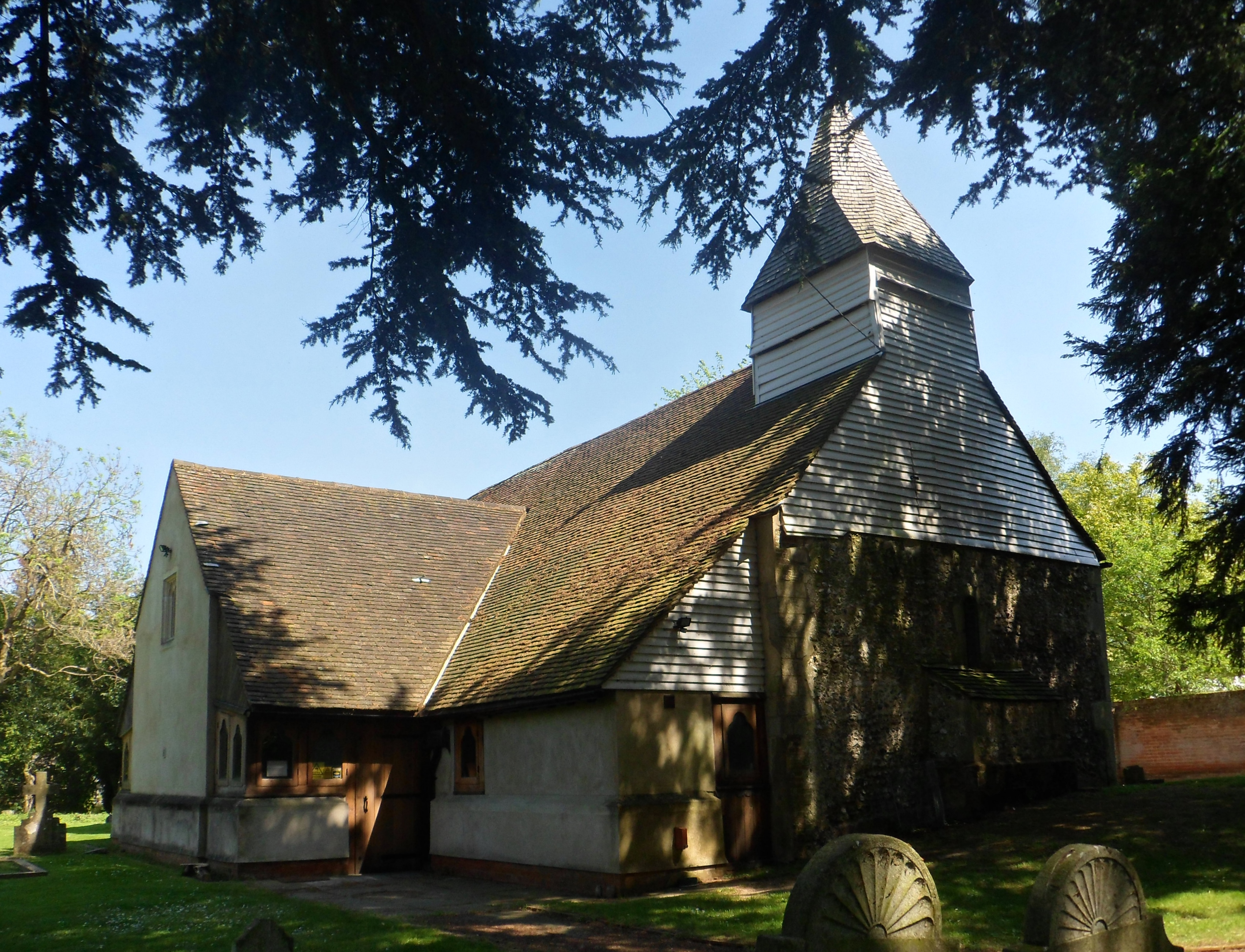 All Saints Church, House Lane, Little Bookham, District of Mole Valley, Surrey, England.